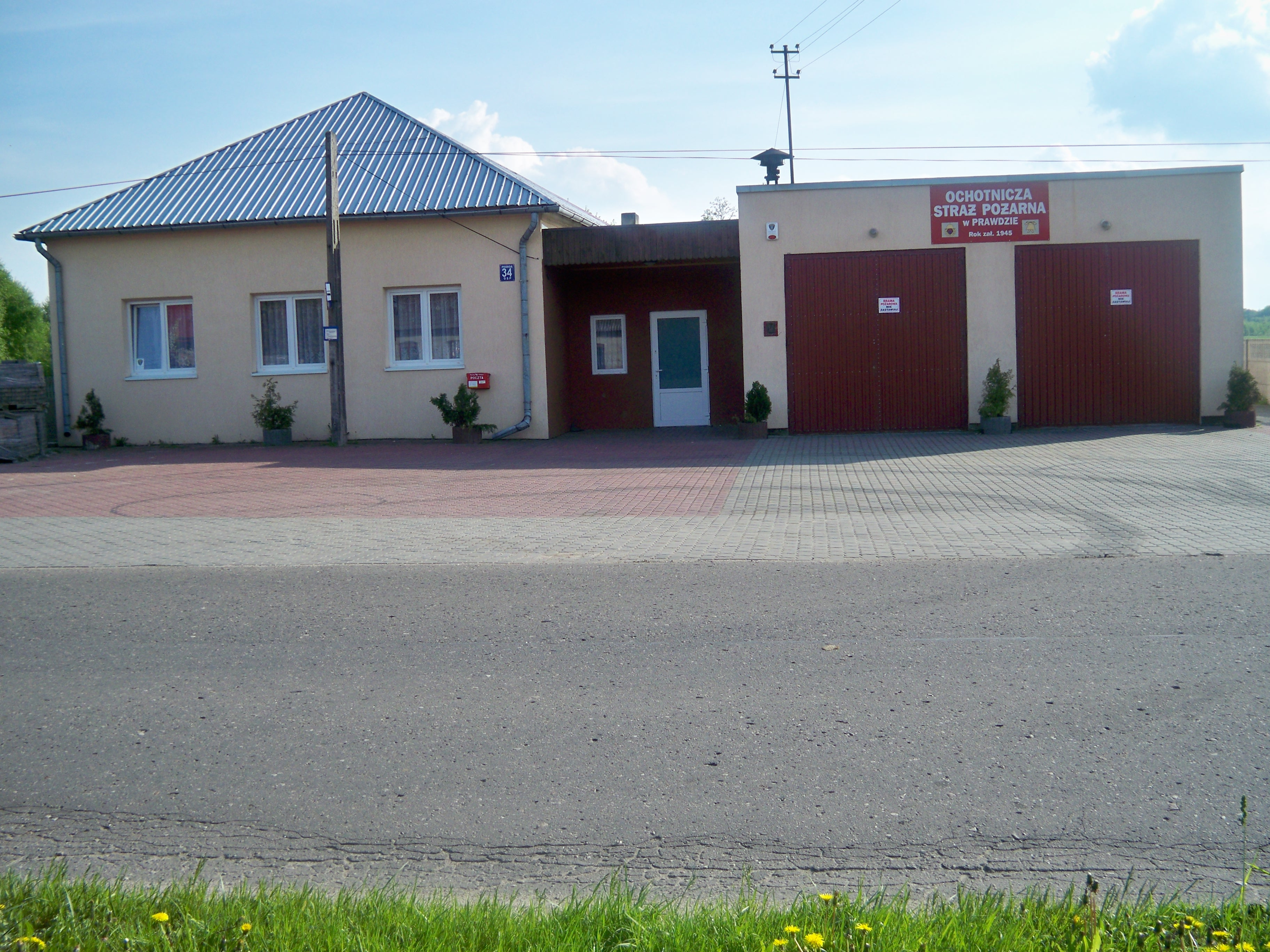 My photo